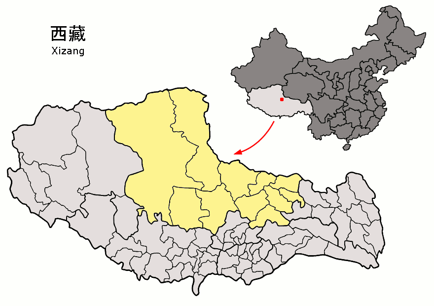 Location of Nagchu Prefecture (yellow) within Tibet (Xizang) autonomous region of China